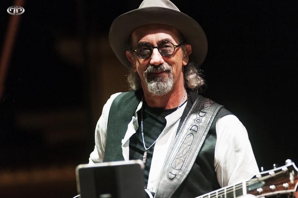 JS at Legend Club Milan Sept 2019